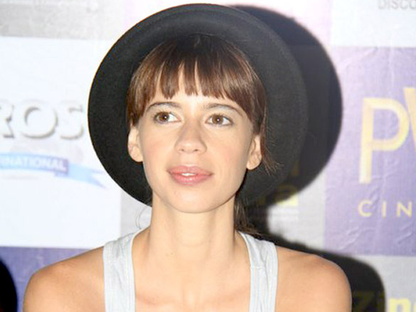 Kalki Koechlin at a Zindagi Na Milegi Dobara Press Conference